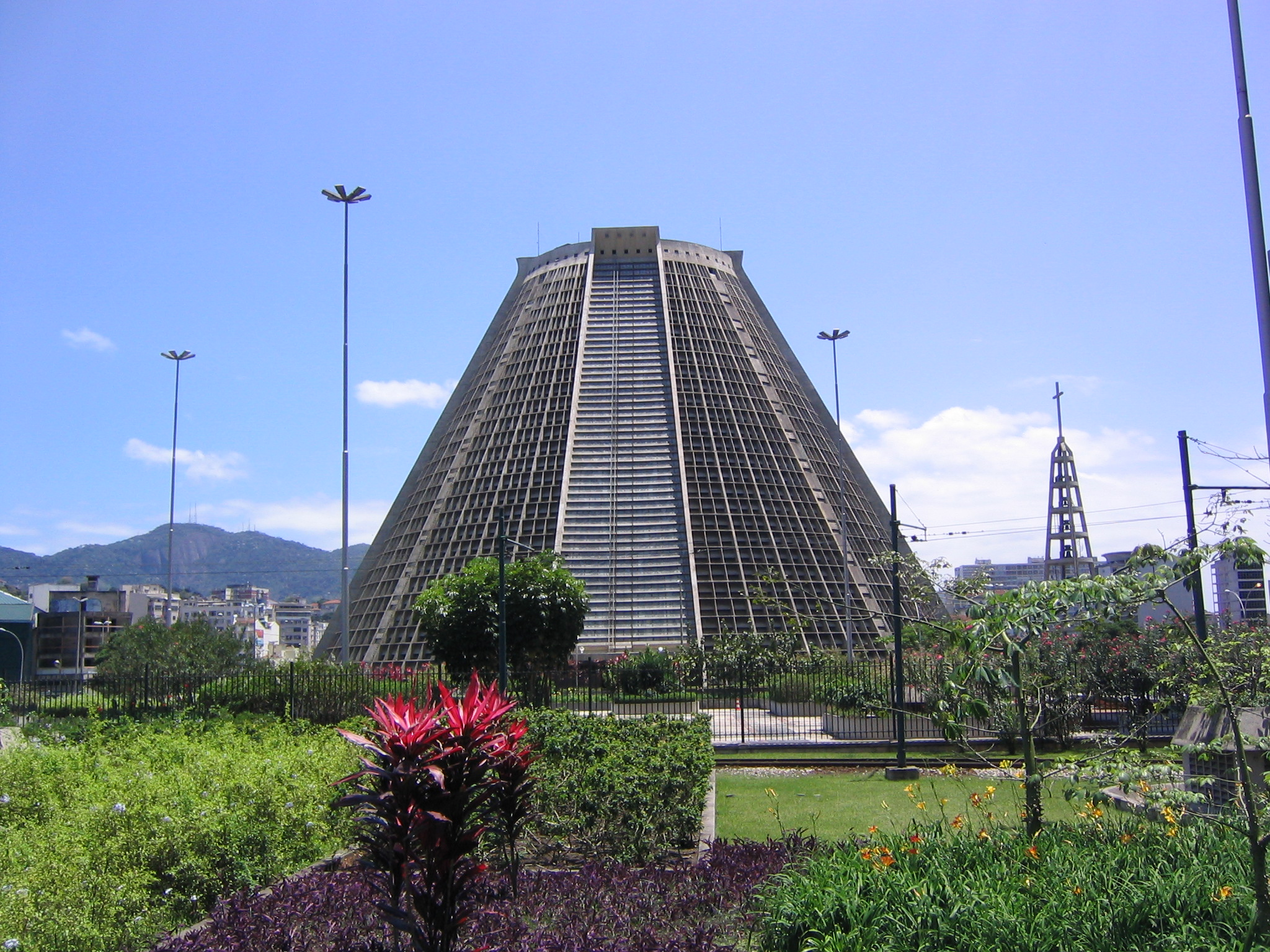 Metropolitan Cathedral of Rio de Janeiro, Brazil